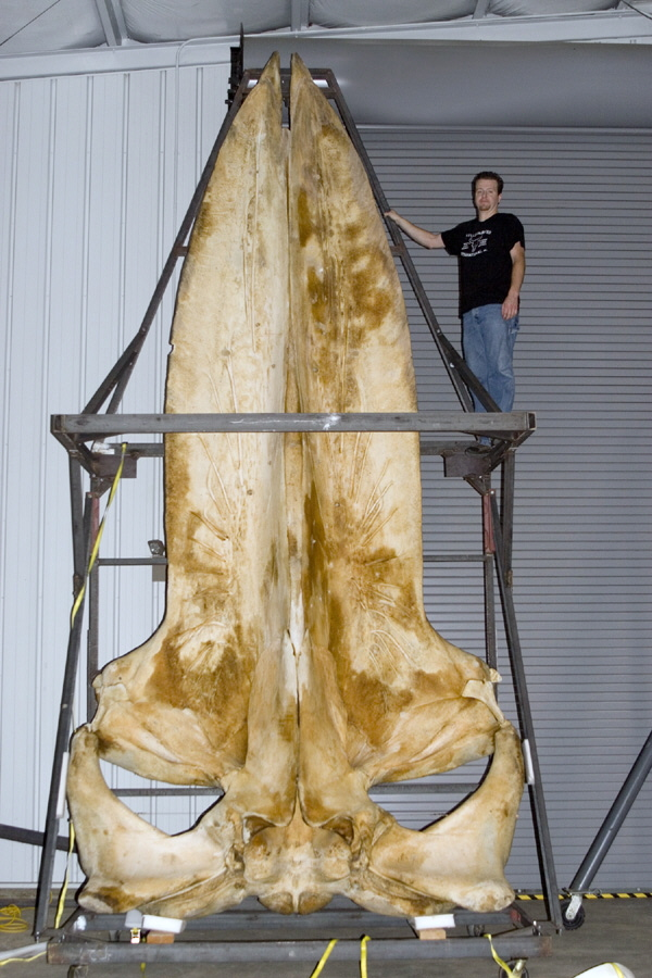 A 19 Foot Long Blue Whale Skull at the Smithsonian Museum of Natural History.